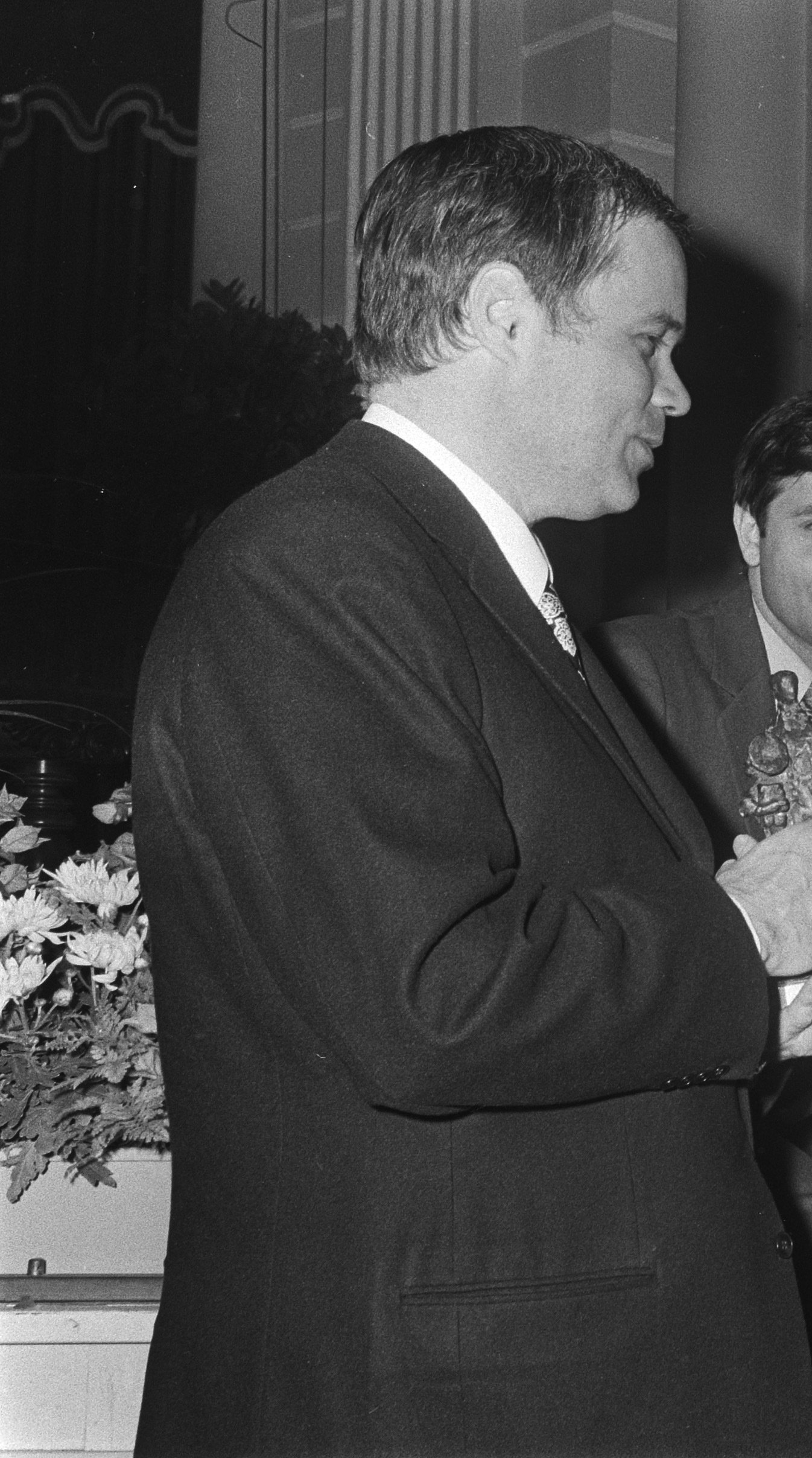 Dietrich Fischer-Dieskau (1970)